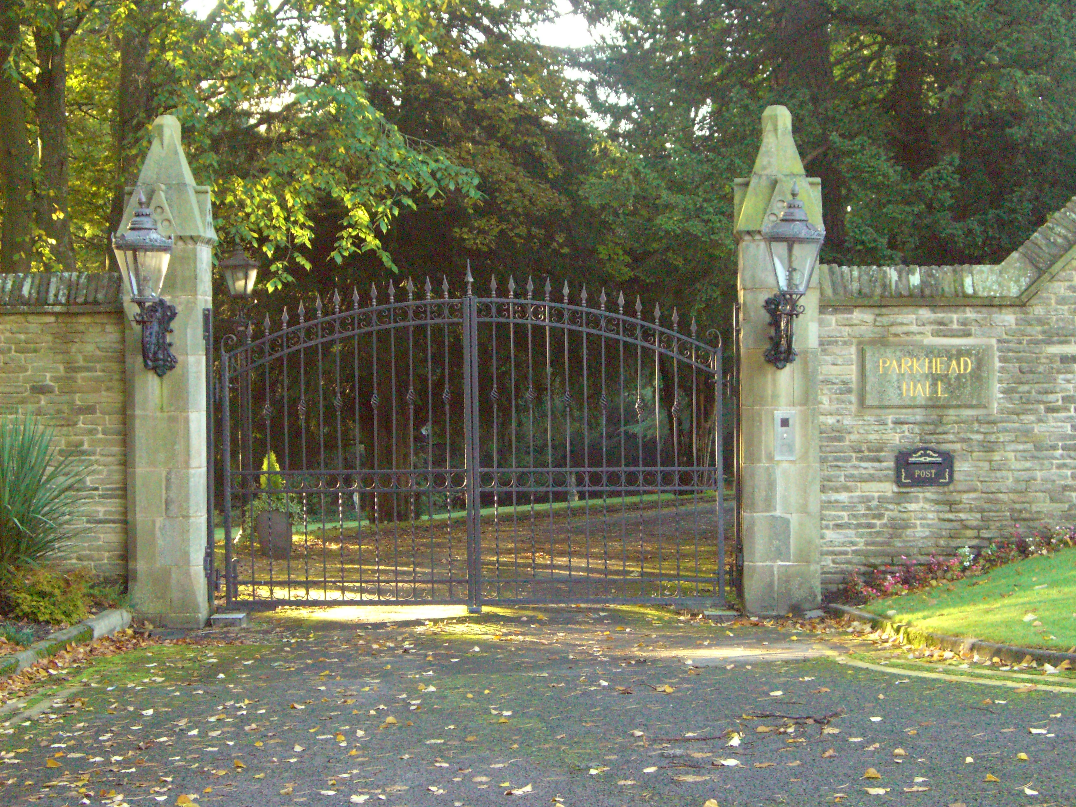 The entrance gates to Parkhead Hall, a Grade II Listed Building in Sheffield, England